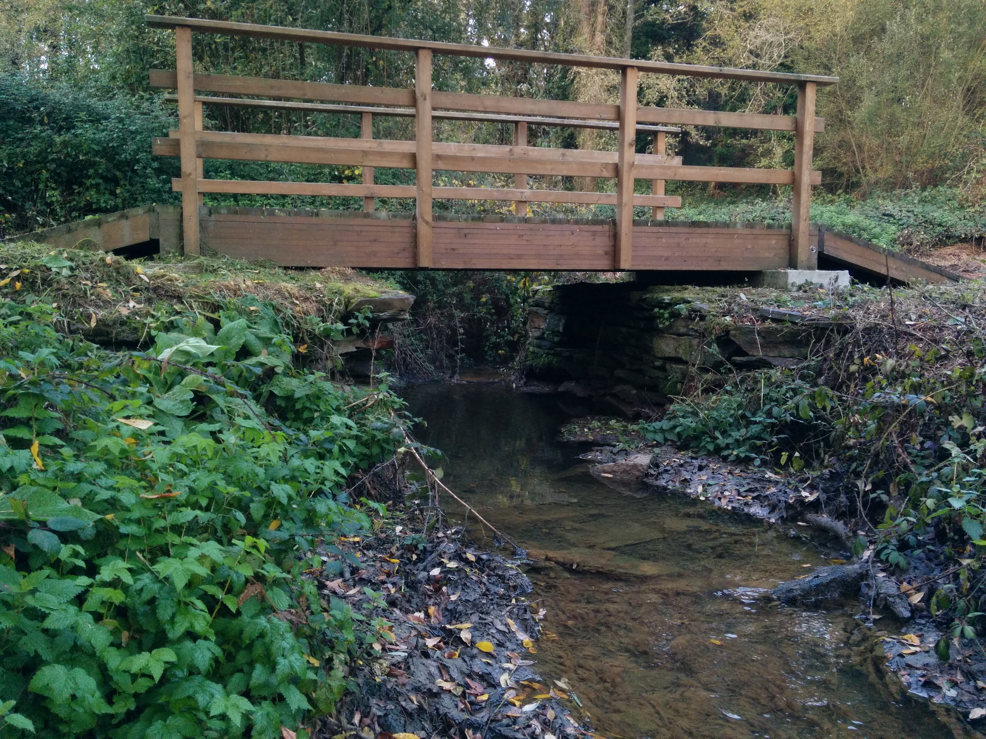 San Mamede River, a left tributary of the Miño River, next to the hamlet of O Chao do Monte, in the municipality of Lugo, province of Lugo, Galicia, Spain. The confluence is a few meters downstream, next to Lugo's new sewage treatment plant.